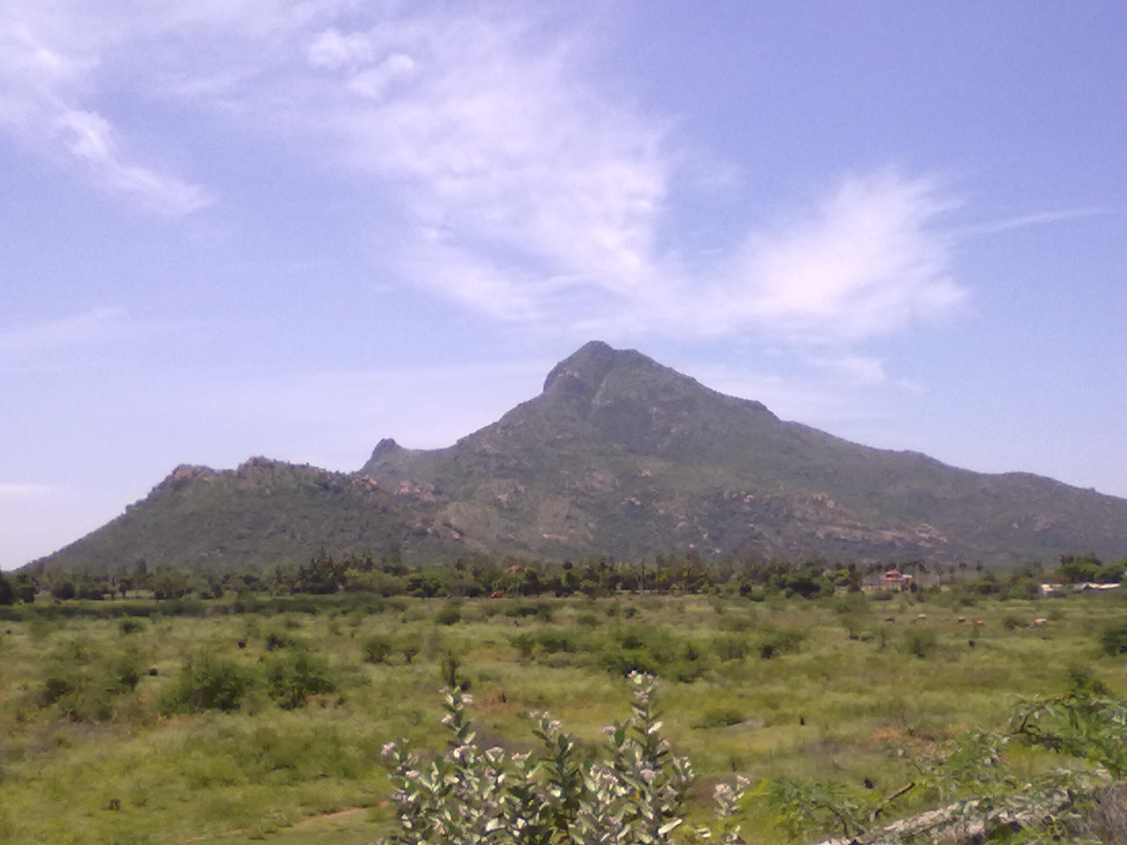 A view of Thiruvanamalai Mountain.